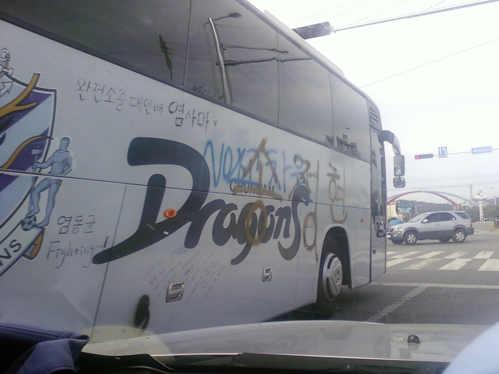 Chunnam Dragons bus. It was taked picture in Yeongdong, Korea